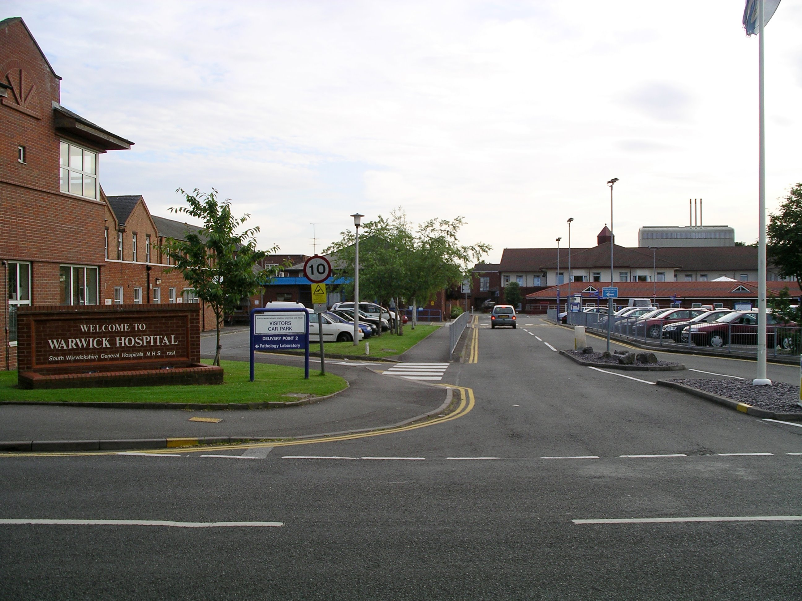 Photo of the entrance of Warwick Hospital, Warwick, Warwickshire, England. Photo take from Lakin Road.